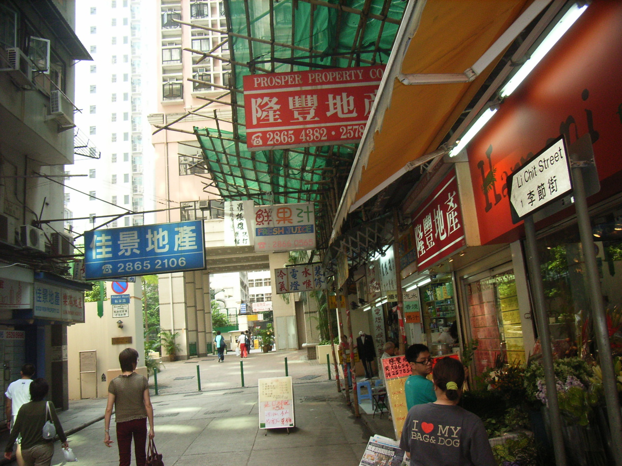 灣仔舊區街道 Wanchai old streets, Hong Kong. (A1 Wong East).